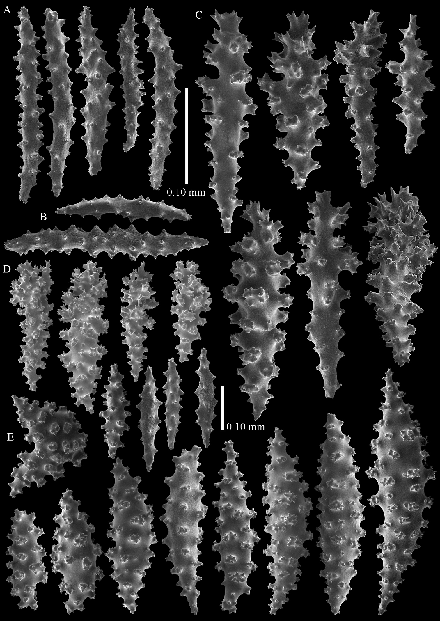 Complexum pusillum sp. n., holotype (RMNH Coel. 41604). A: point spindles; B: collaret spindles C–D: clubs of surface laye E: spindles of interior.